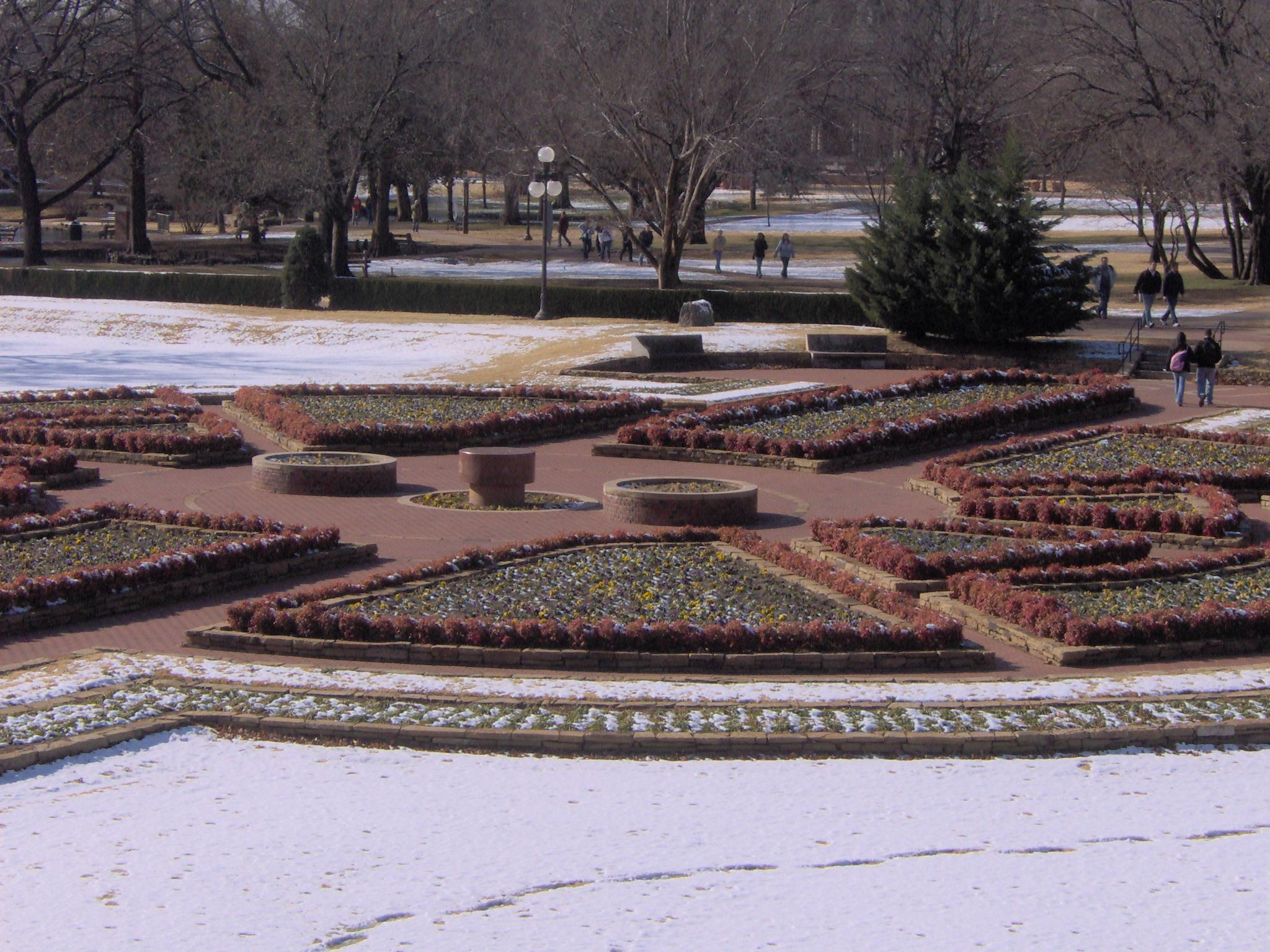 Oklahoma State University Student Union lawn in winter